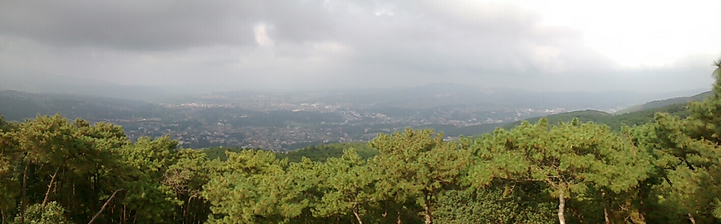 A view of the shilong city from shilong peak.